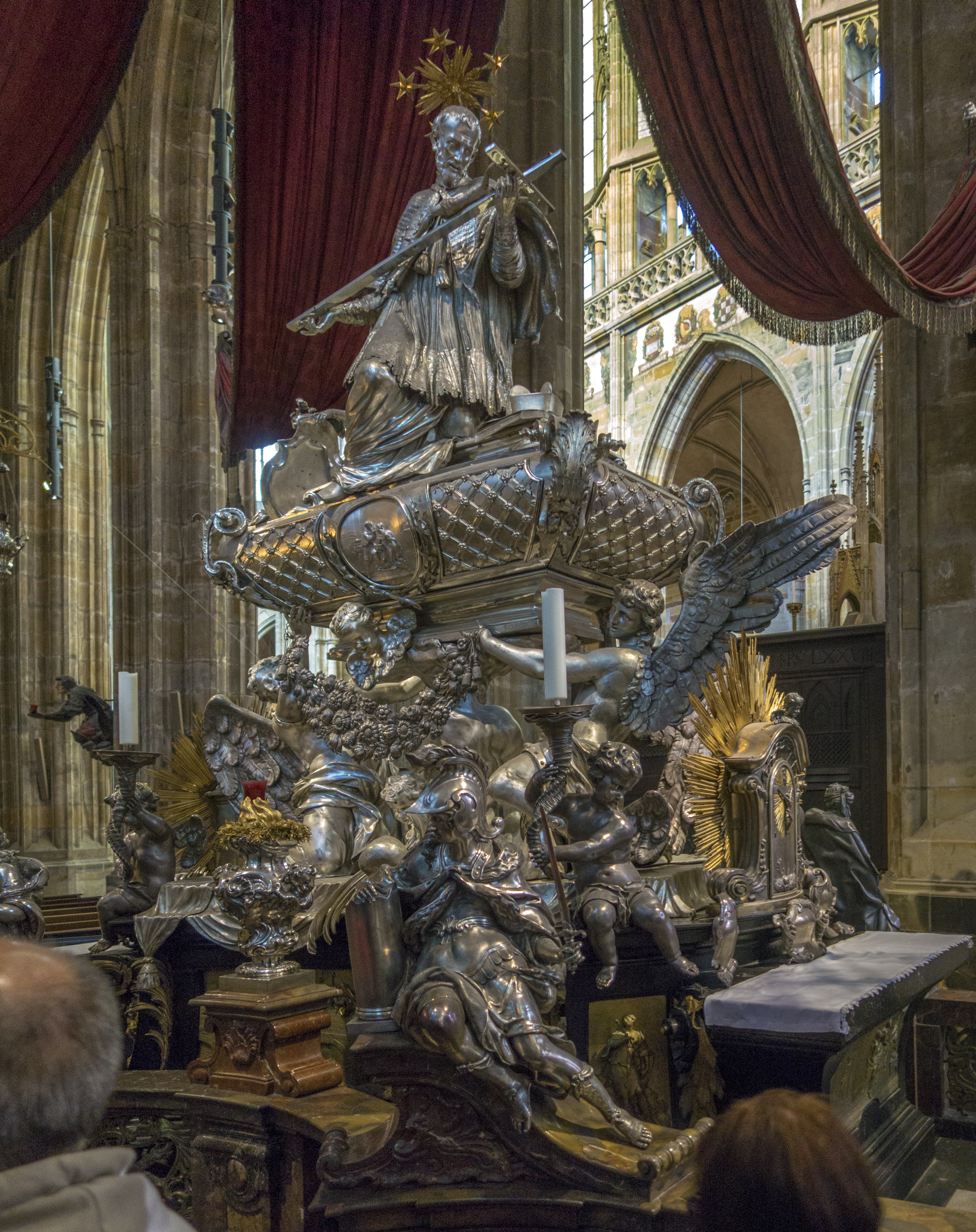 John Nepomuk's tomb